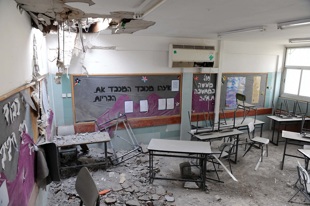 Grad rocket fired from Gaza hits Southern Israeli city of Beer Sheva and destroys a kindergarten classroom